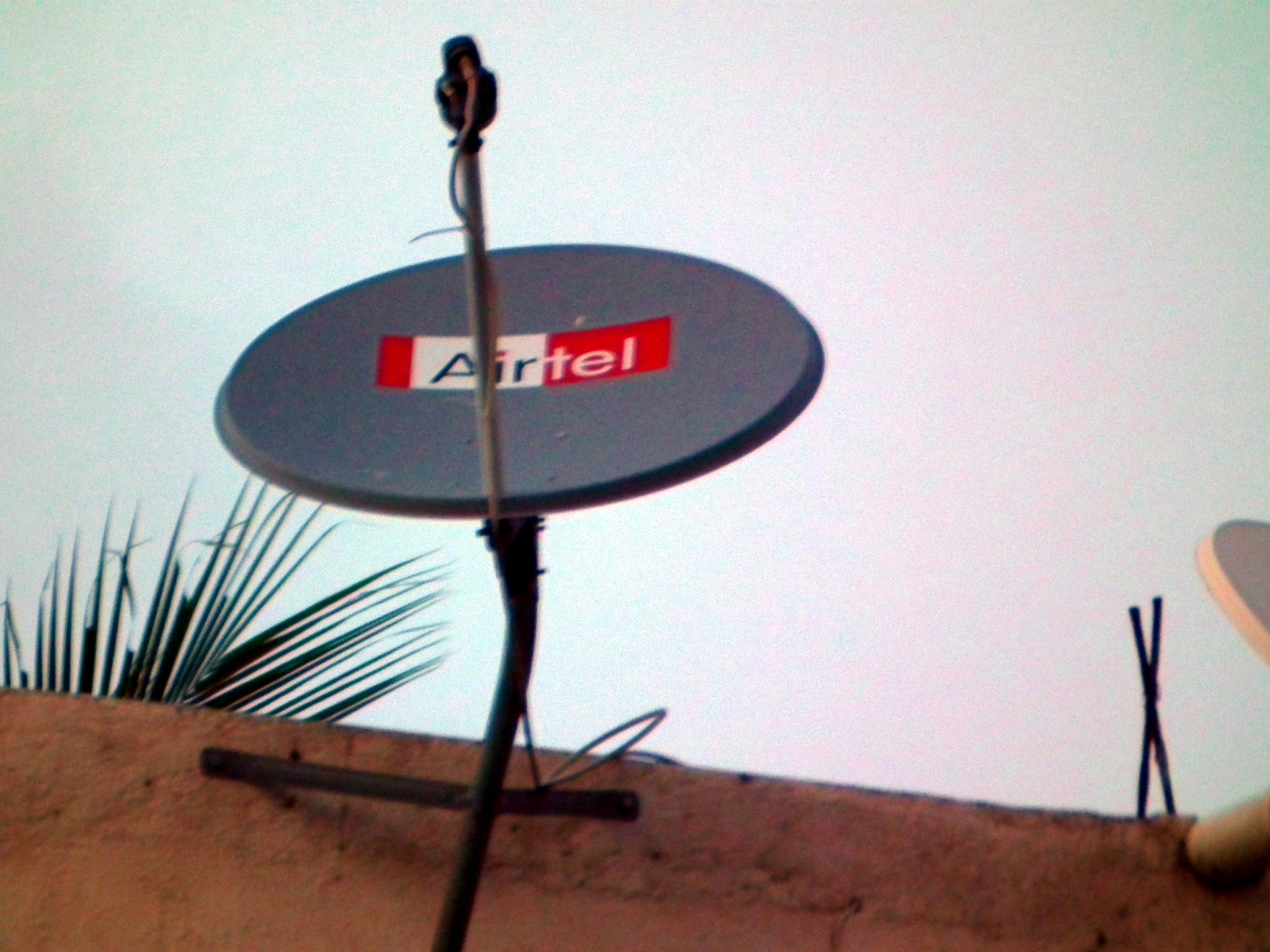 Airtel DTH Antenna on the roof top